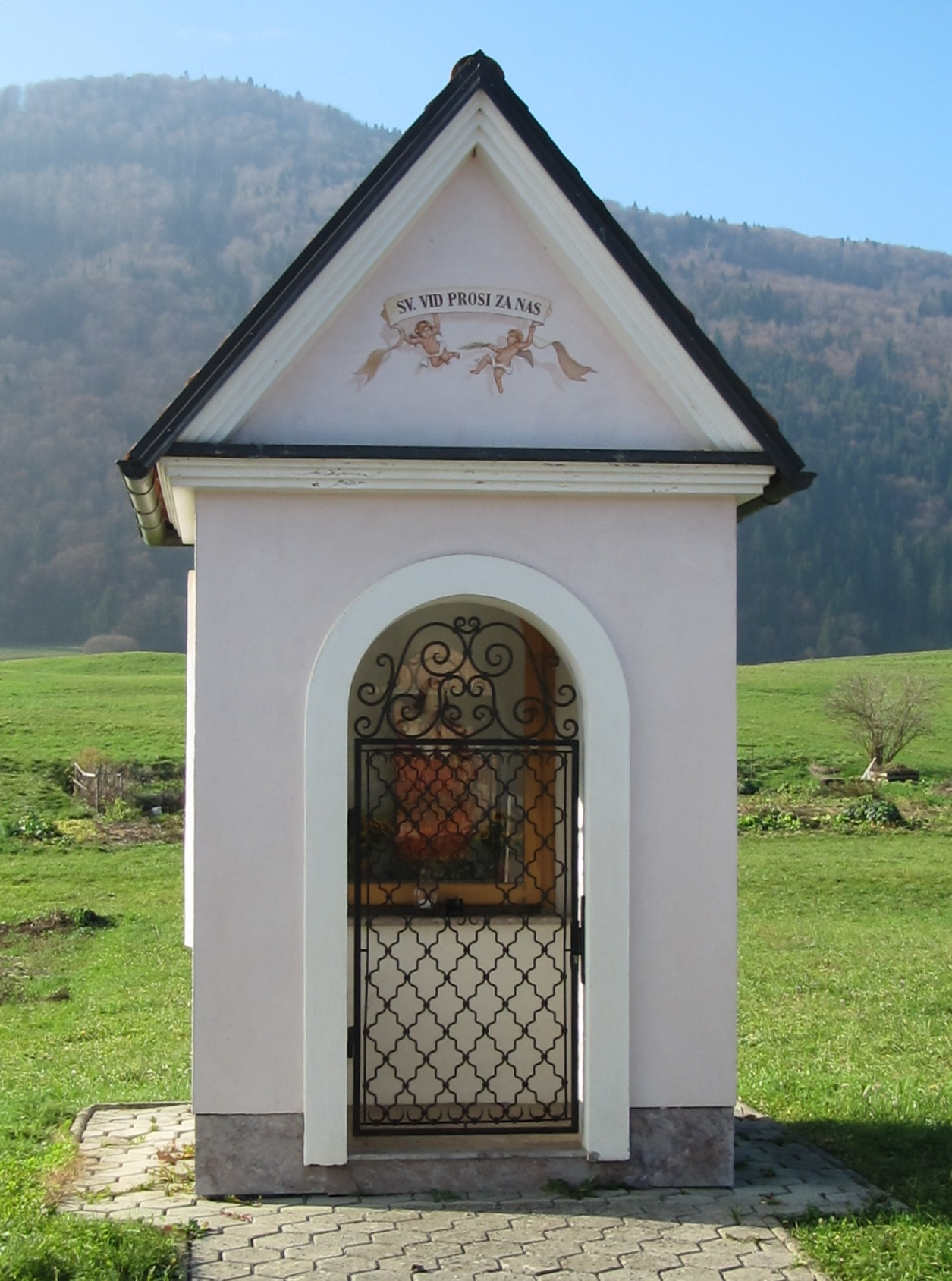 Wayside shrine in Kompolje, Municipality of Dobrepolje, Slovenia